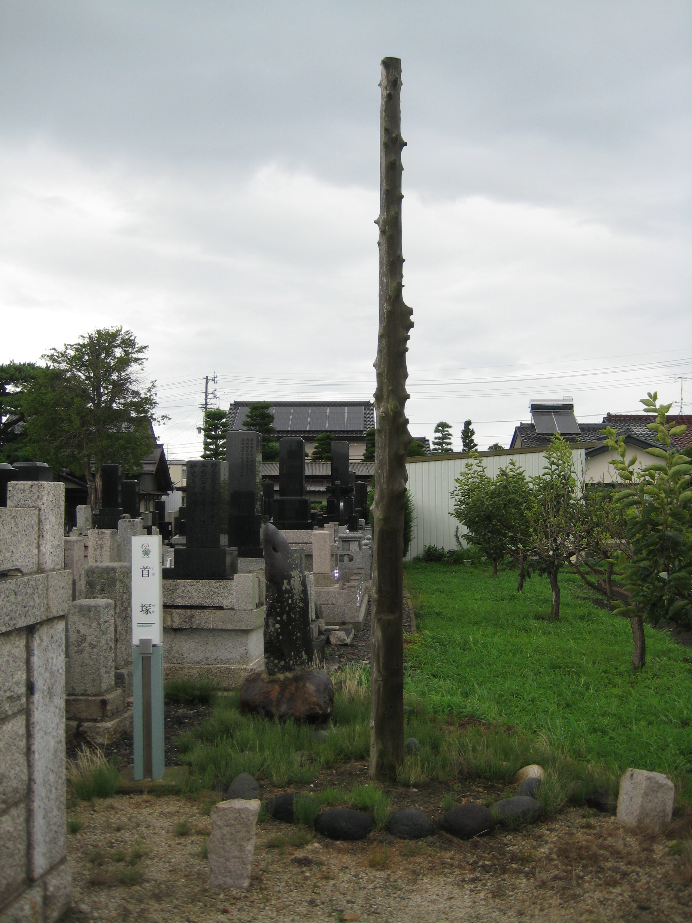 After the execution of Tada Kasuke and the display of his severed head, his relatives secretly recovered his head and buried here.